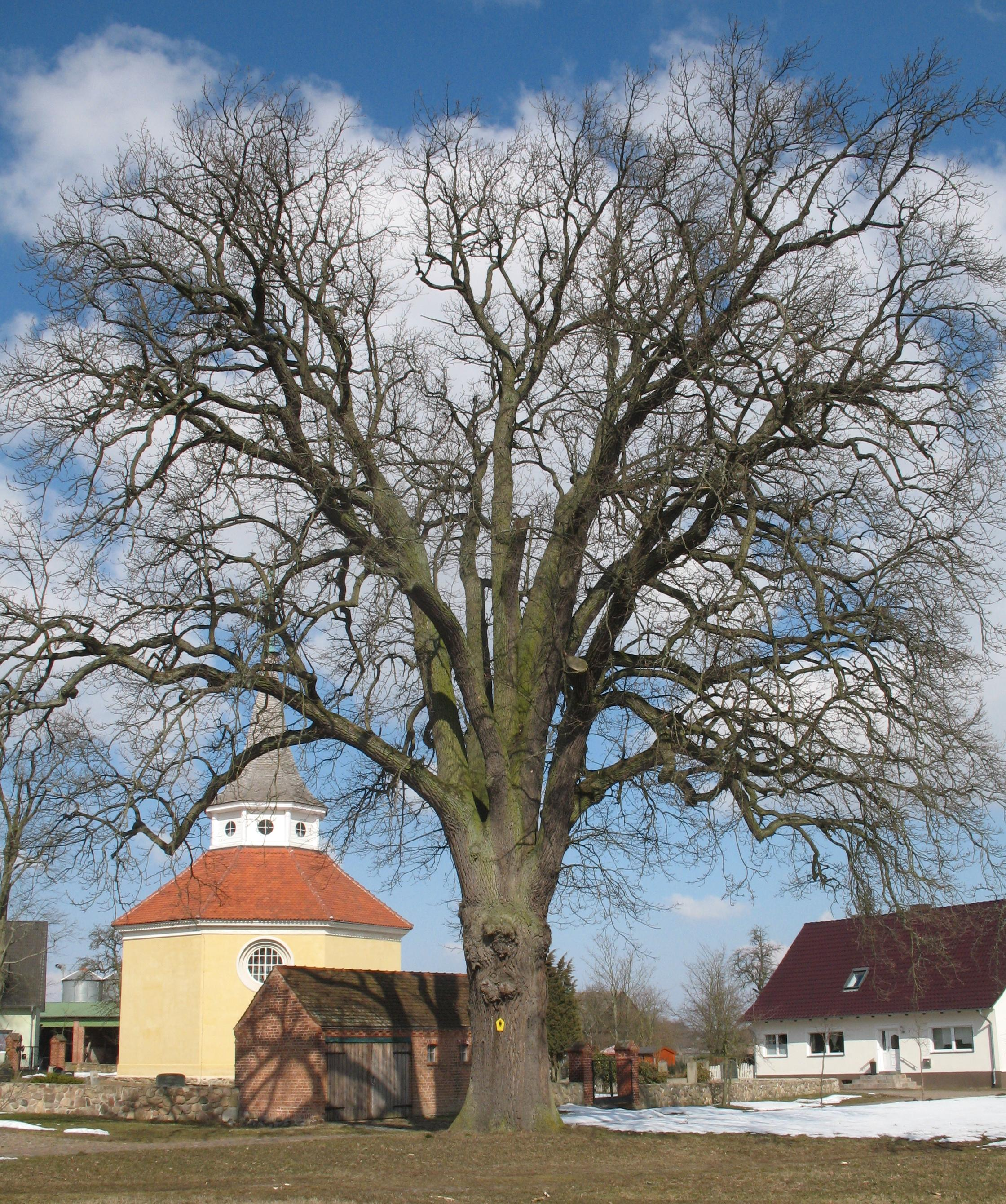 Church and natural monument in Heiligengrabe-Glienicke in Brandenburg, Germany